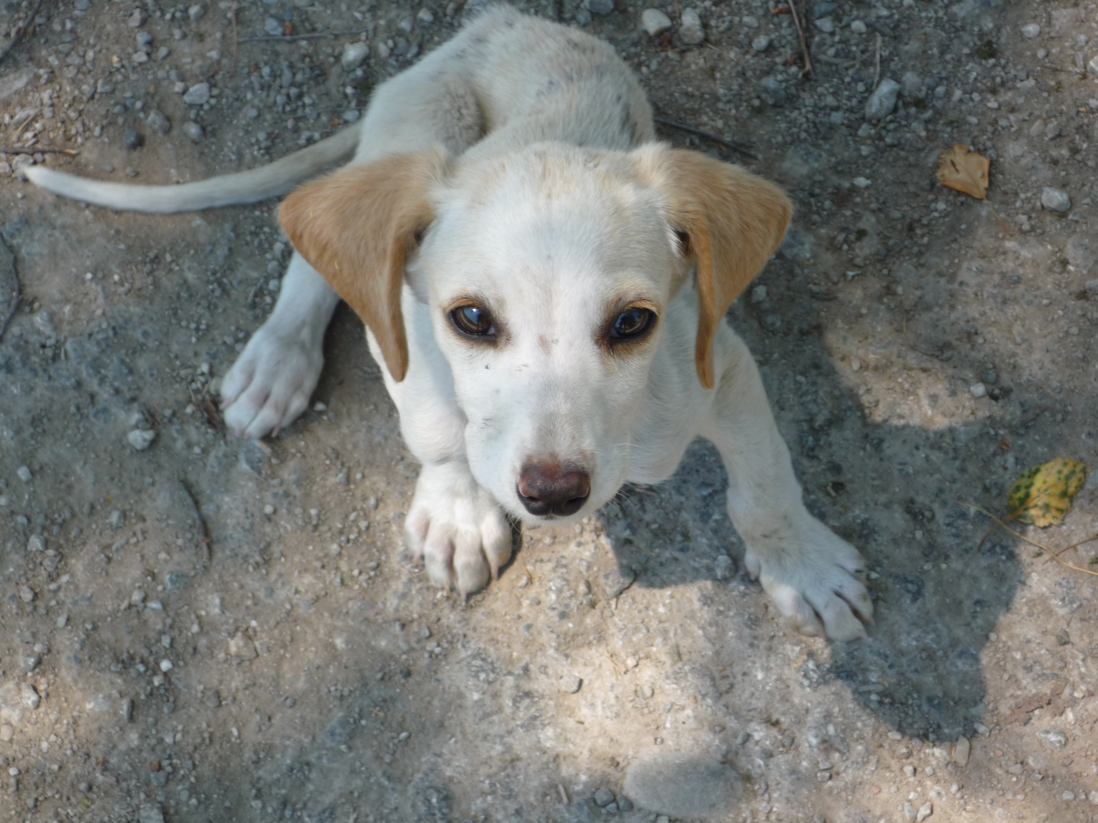 The picture of this stray dog was taken in the Balkans region of Europe where it is not unusual to see stray dogs. I do not want to specify the country to avoid a stigma, because this kind of picture could have been top in another Balkan country, even in other countries. The description of her condition, was a tad dirty, emaciated and the rear axle, (pelvis, hip, thigh) where some discomfort to move, probably from starvation. His destiny after this picture is unknown to me. Travelling by scooter from Switzerland, I was hardly possible to think of it hang with me.